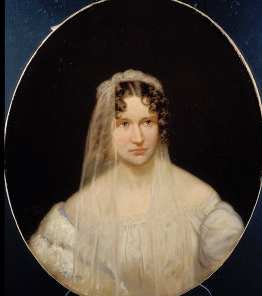 Portrait of Sarah Helen Whitman, restored in 2000.